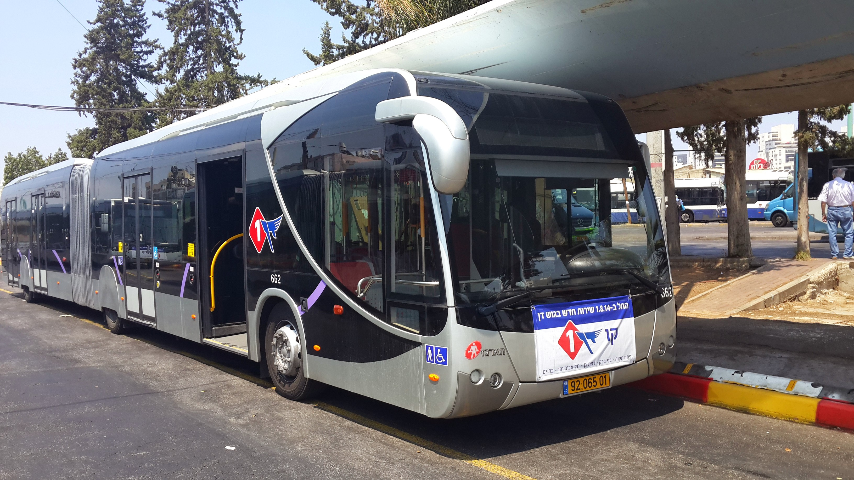 Haargaz Urbanit bus in Central Bus Station of Petah Tikva